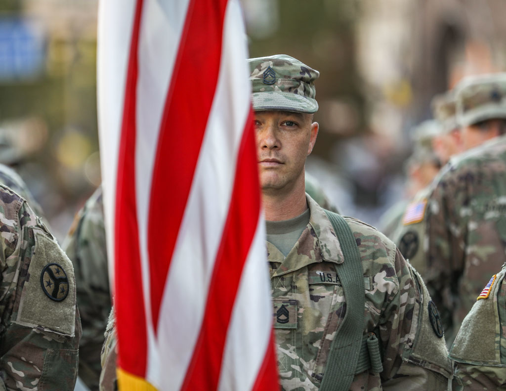 Sfc. Brian Lamm from the 278th Armored Cavalry Regiment out of Tennessee stands in formation during the Ukrainian Independence Day parade in Kyiv, Aug. 24.